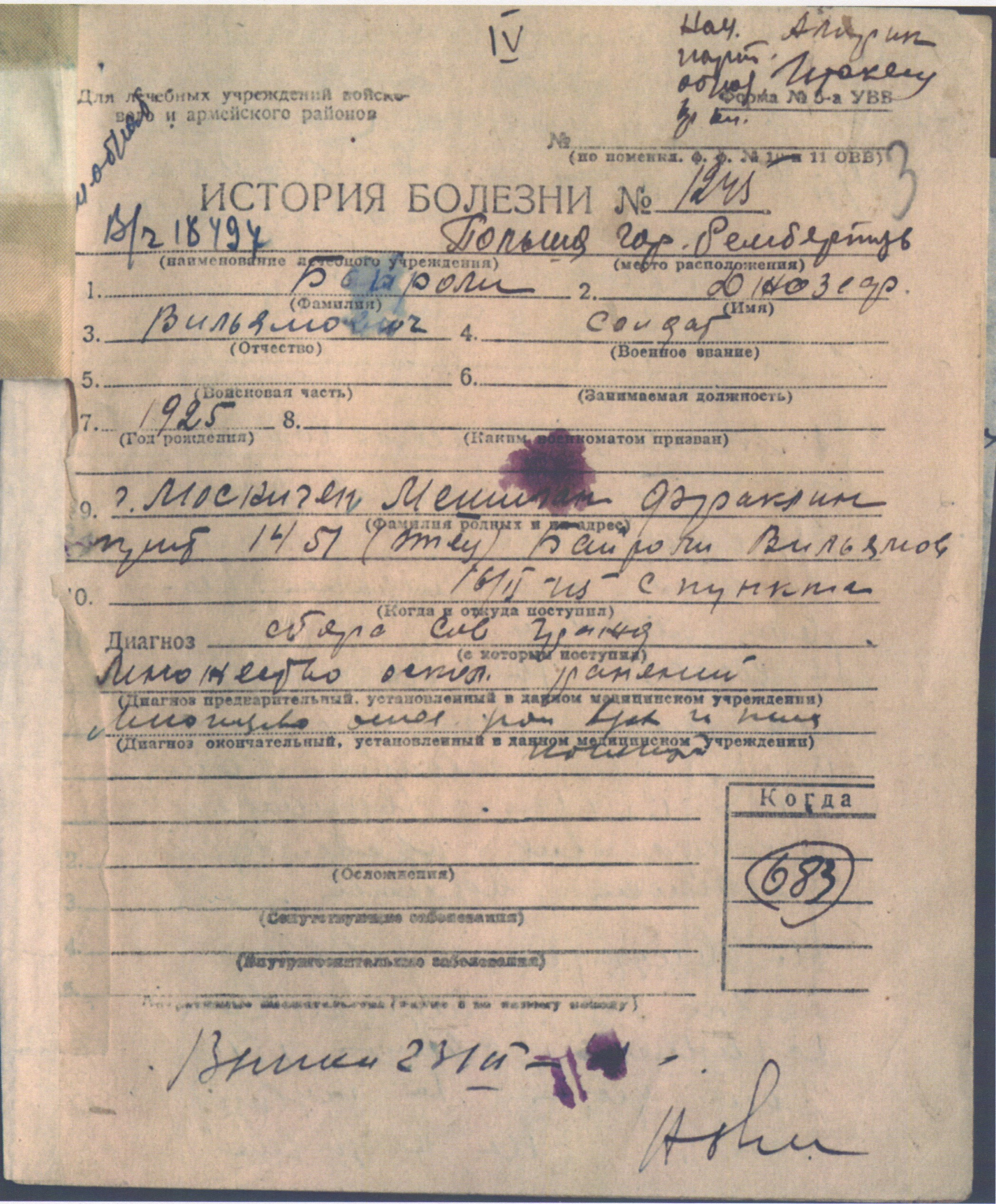 Scan of medical chart of Joseph Beyrle from Soviet Army field hospital, 1944